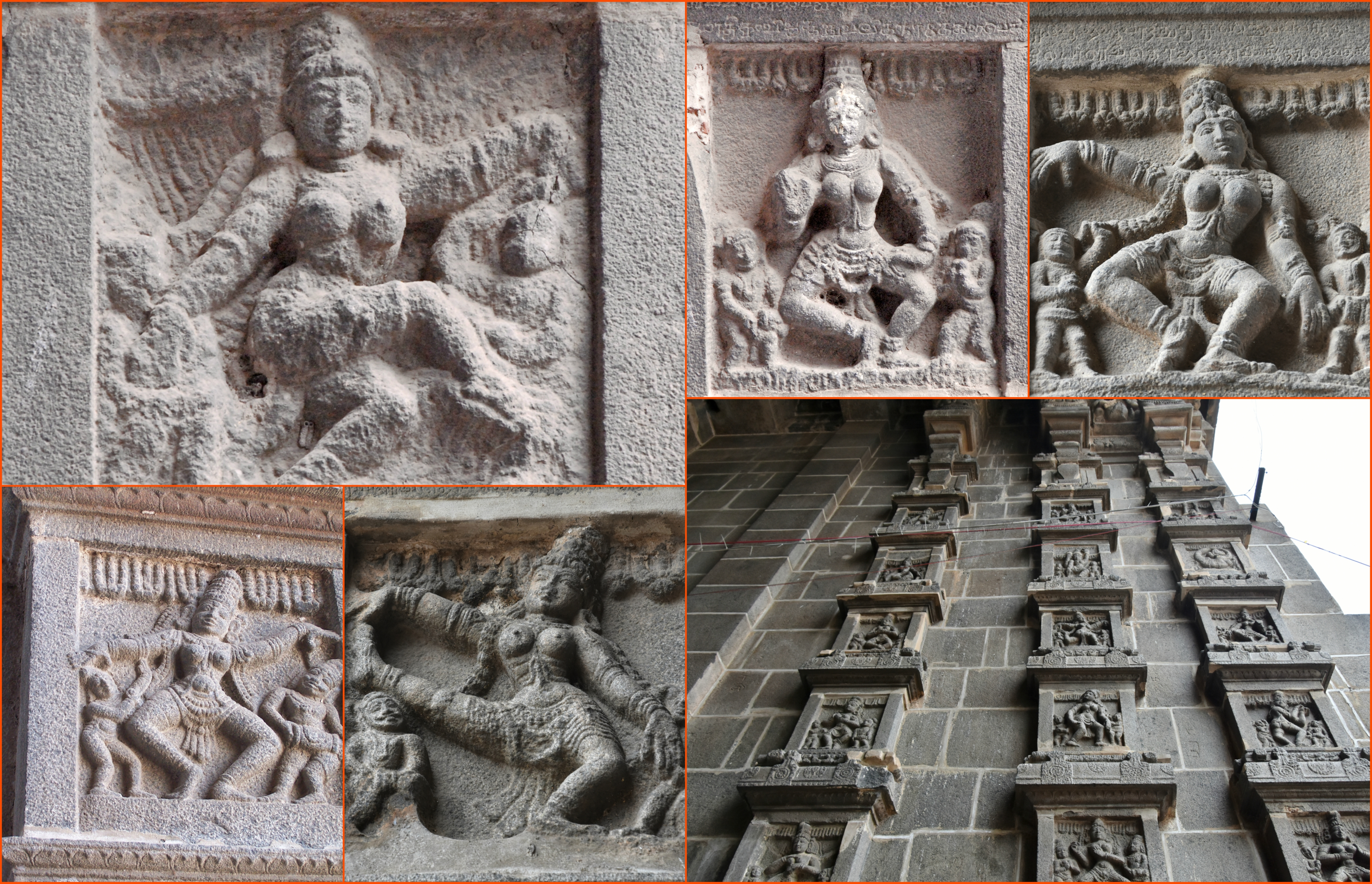 The Chidambaram temple is dedicated to Nataraja - Shiva as the lord of dance. The dance theme is shown in the artwork embedded inside the temple complex. For example, the inner wall of the eastern gopura, completed in the 13th century, shows all 108 dance mudra from the ancient Natya Shastra text. These postures are a part of the Bharatanatyam dance. This is a derivative work on the following wikimedia commons files: A view of dance mudra postures at the Nataraja Shiva Temple at Chidambaram, Tamil Nadu (8).jpg TempleChidambaram4.jpg Le temple de Shiva Nataraja (Chidambaram, Inde) (14041571803).jpg Le temple de Shiva Nataraja (Chidambaram, Inde) (14021570385).jpg A view of dance mudra postures at the Nataraja Shiva Temple at Chidambaram, Tamil Nadu (41).jpg A view of dance mudra postures at the Nataraja Shiva Temple at Chidambaram, Tamil Nadu (21).jpg